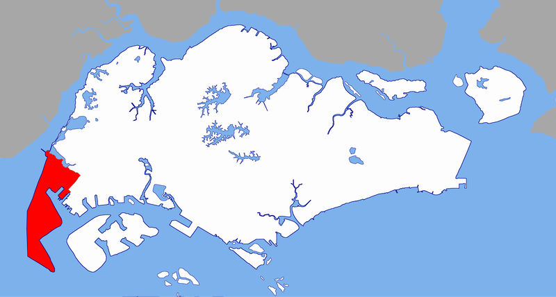 Created by Vsion